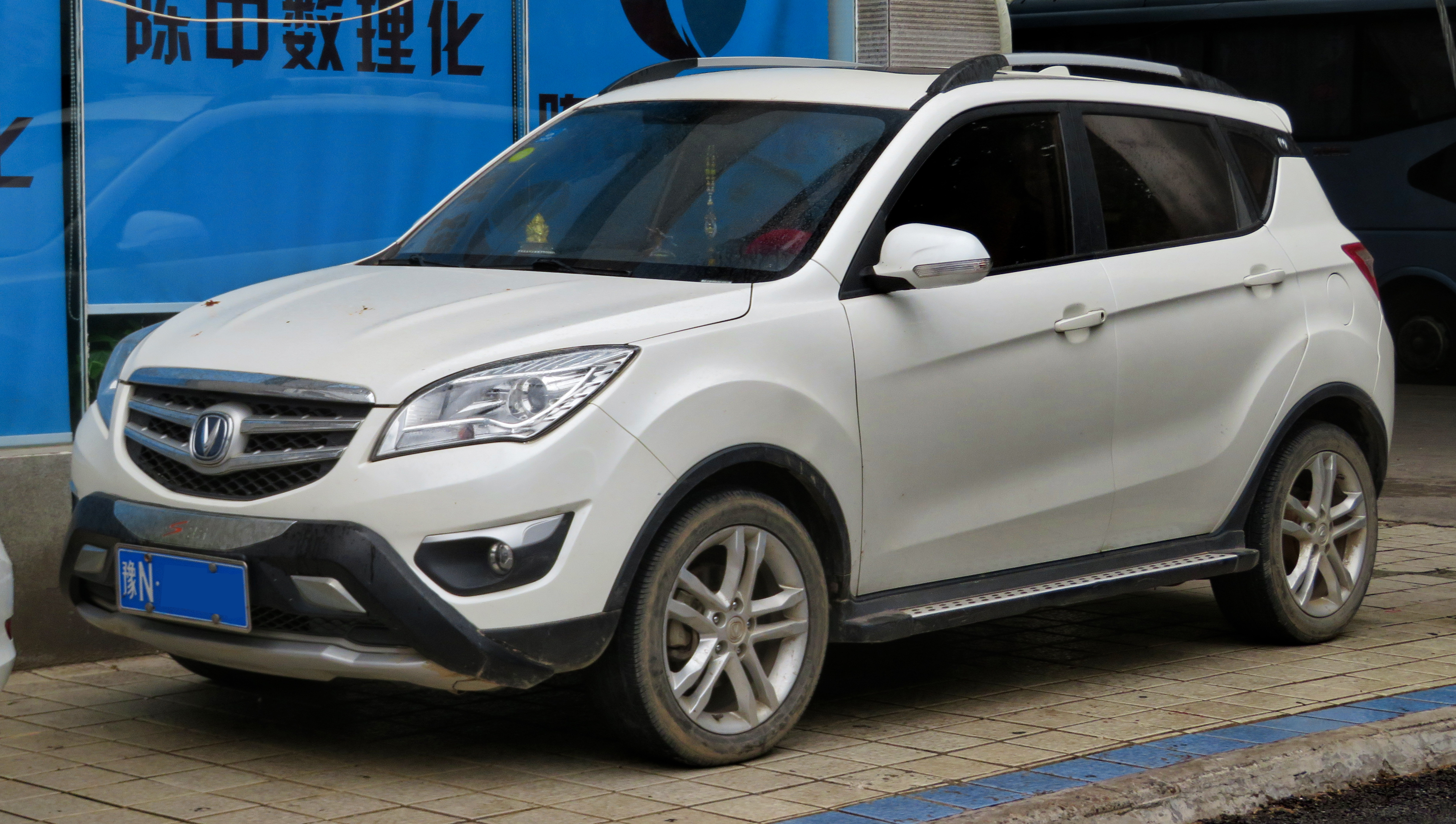 A 2014 Chang'an CS35 photographed in Xigong District, Luoyang, Henan province, China